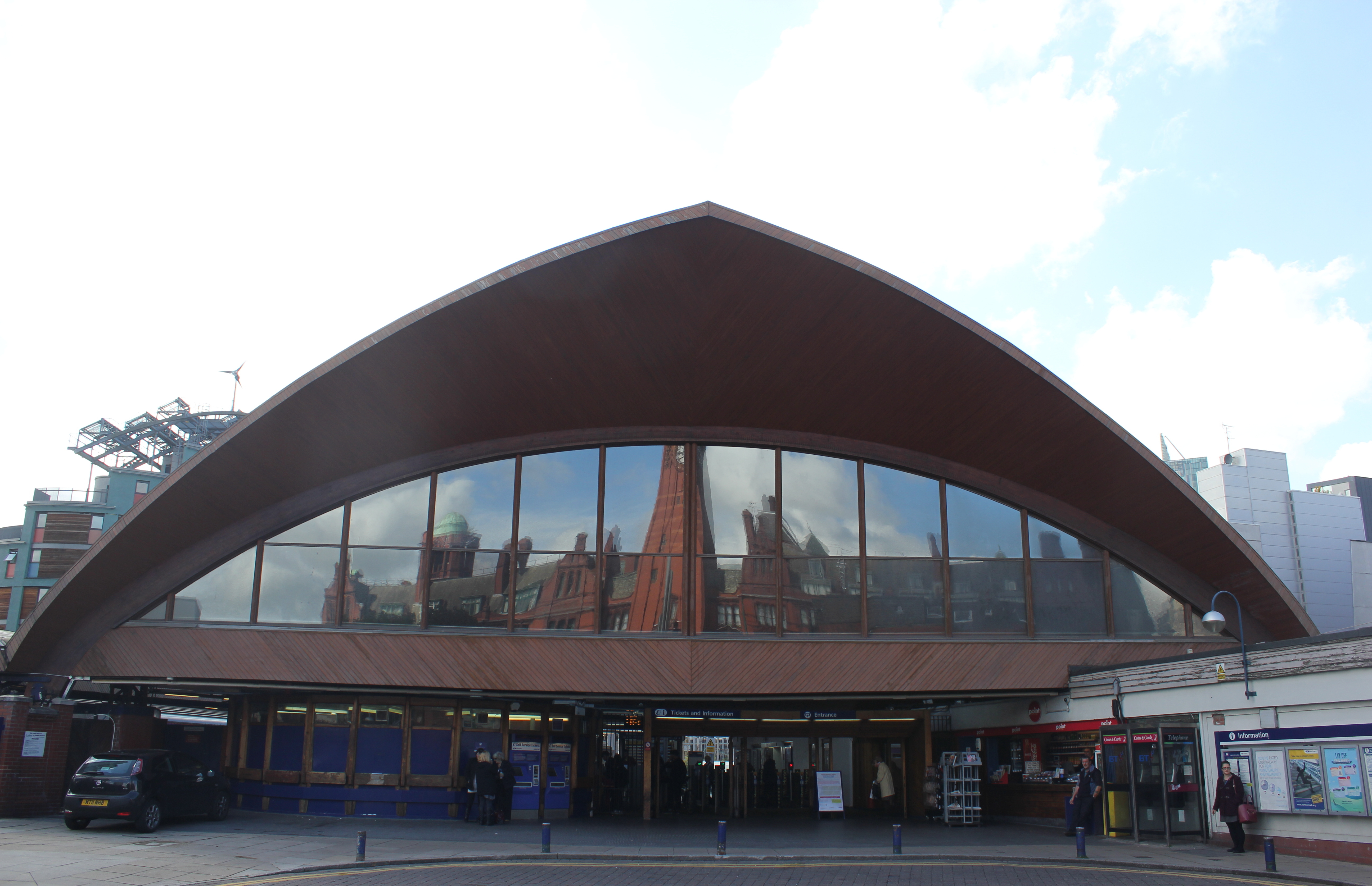 The main entrance of Oxford Road railway station in Manchester. The building is Grade II listed.